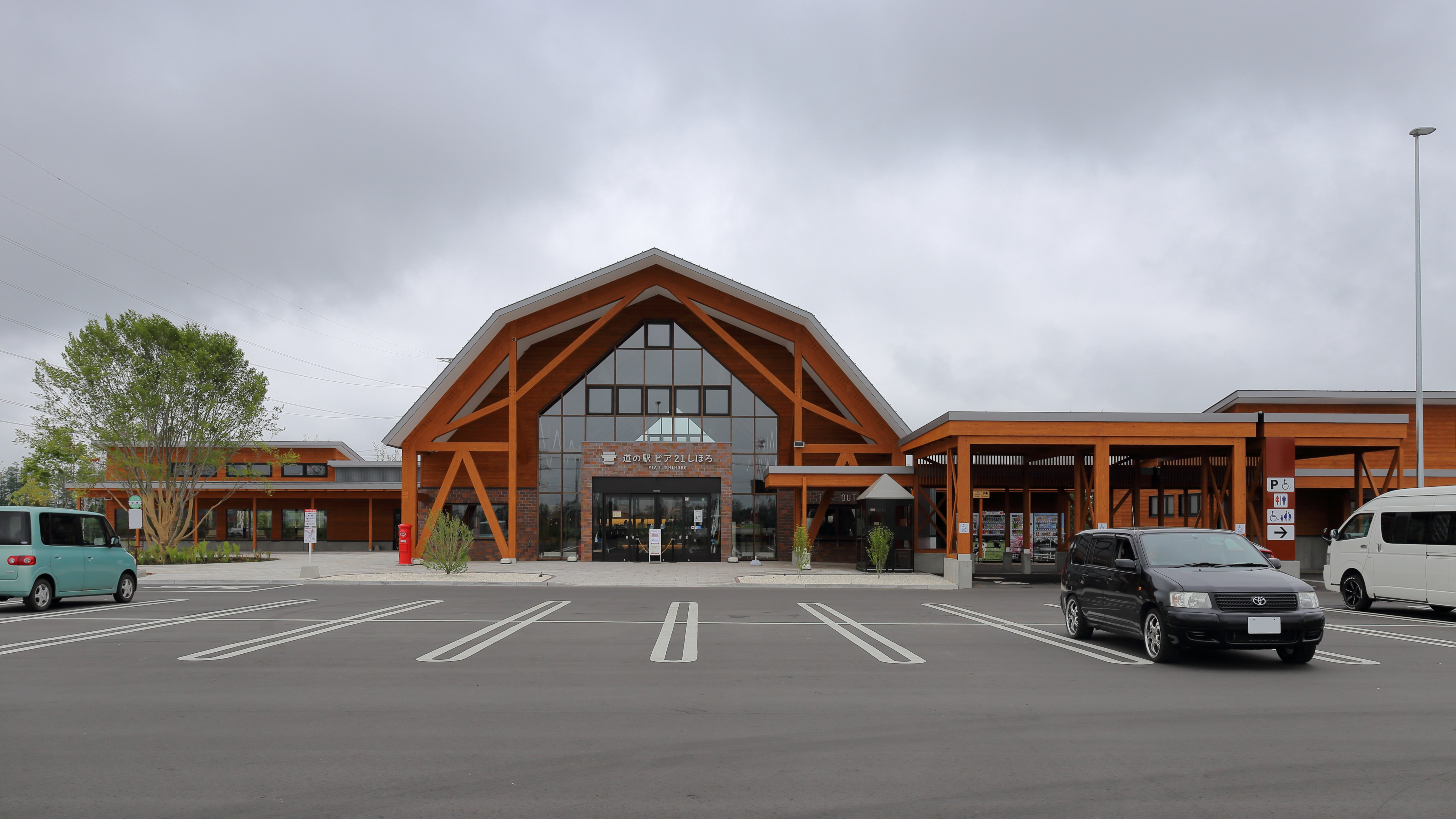 Michinoeki Pia 21 Shihoro in Shihoro Town, Hokkaido, Japan